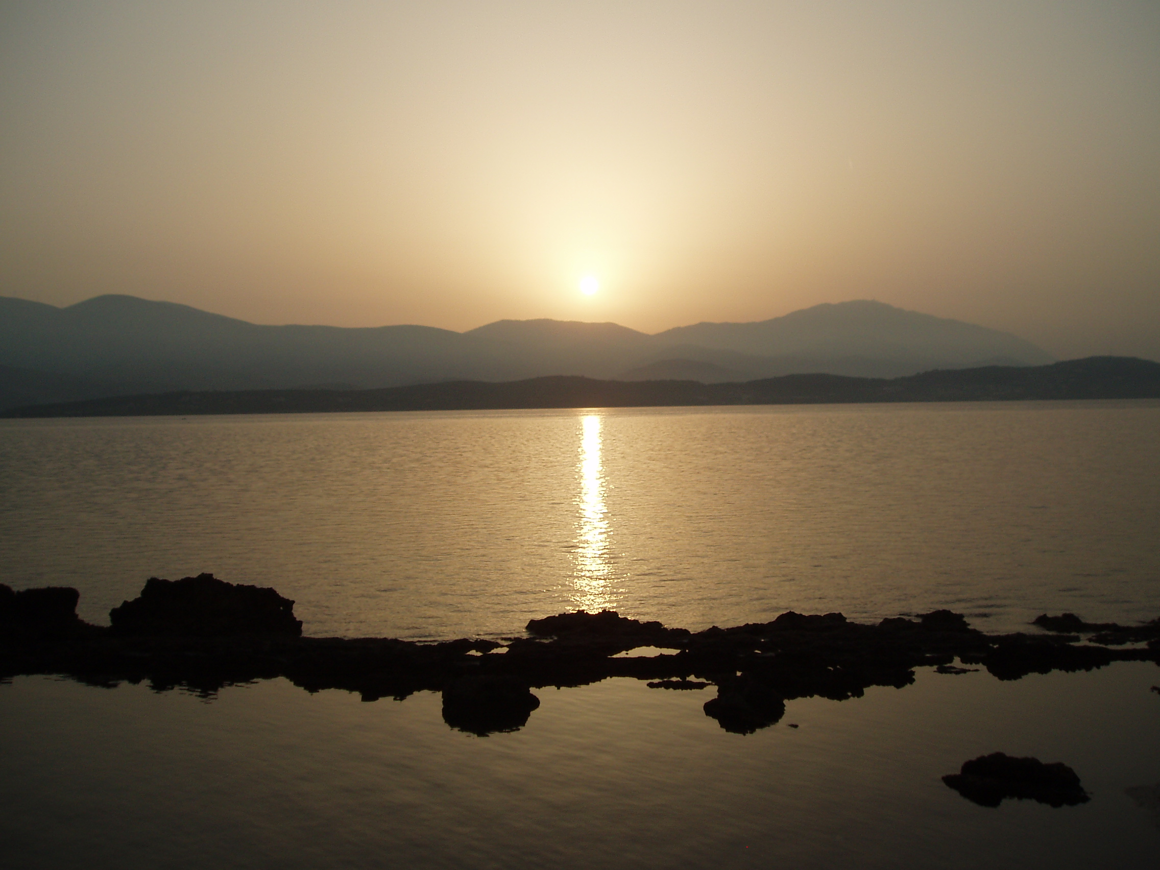 The beach at Lepeda in Kephalonia Greece showing rocks at sunrise